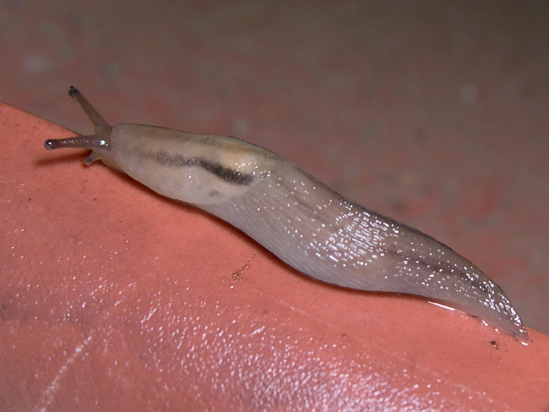 Lehmannia valentiana. Locality: Kawasaki, Kanagawa, Japan. 11 Jun 2006.